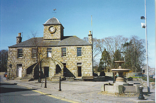 The Town House, Kintore. Note the unusual double staircase leading to the first floor entrance. Kintore is now a dormitory town for Aberdeen and is now by-passed by the A96.